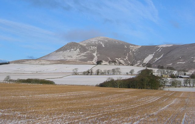 Stubble beneath Tinto Clydesdale arable land beneath Tinto (707m).